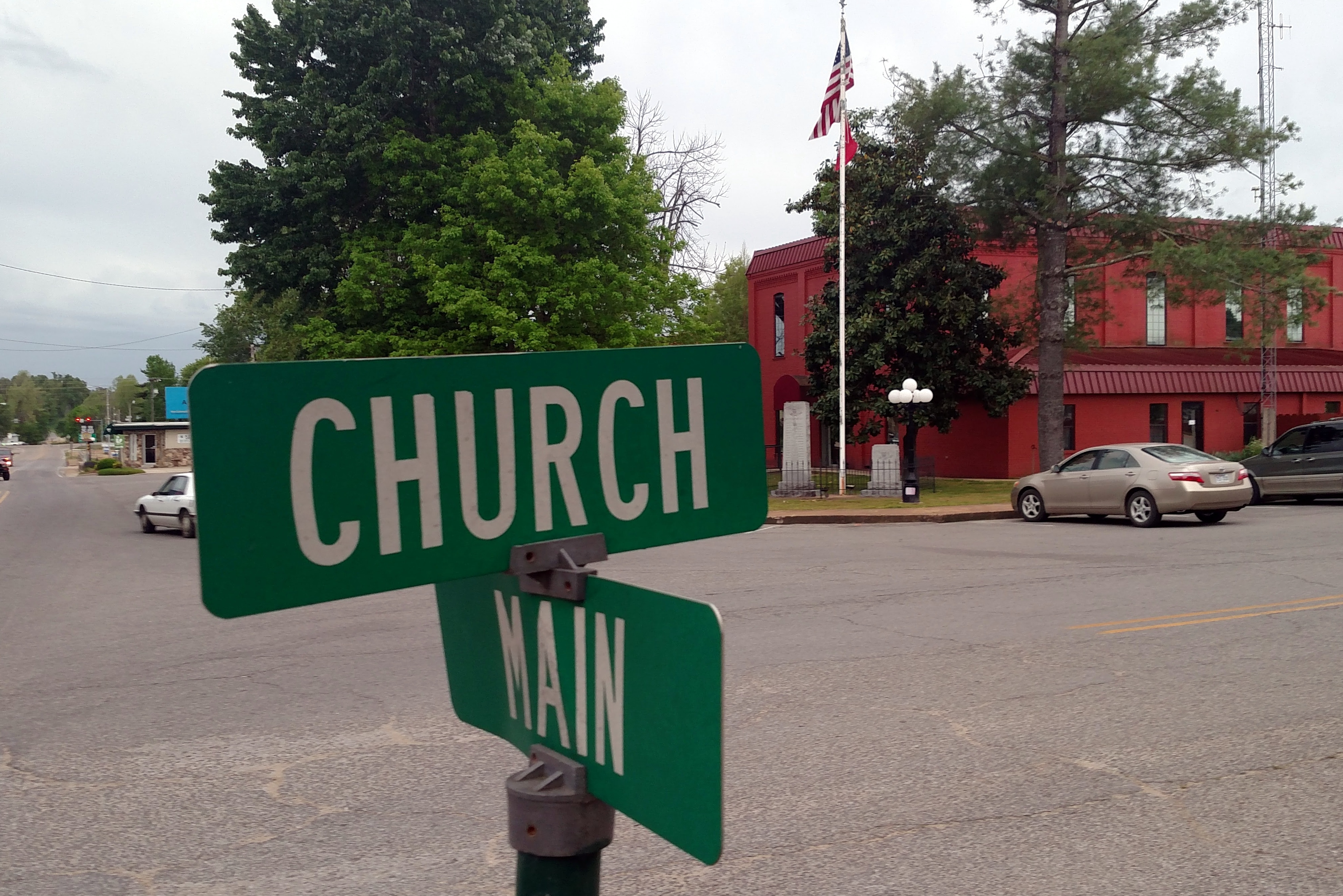 Downtown Salem, AR with courthouse in background